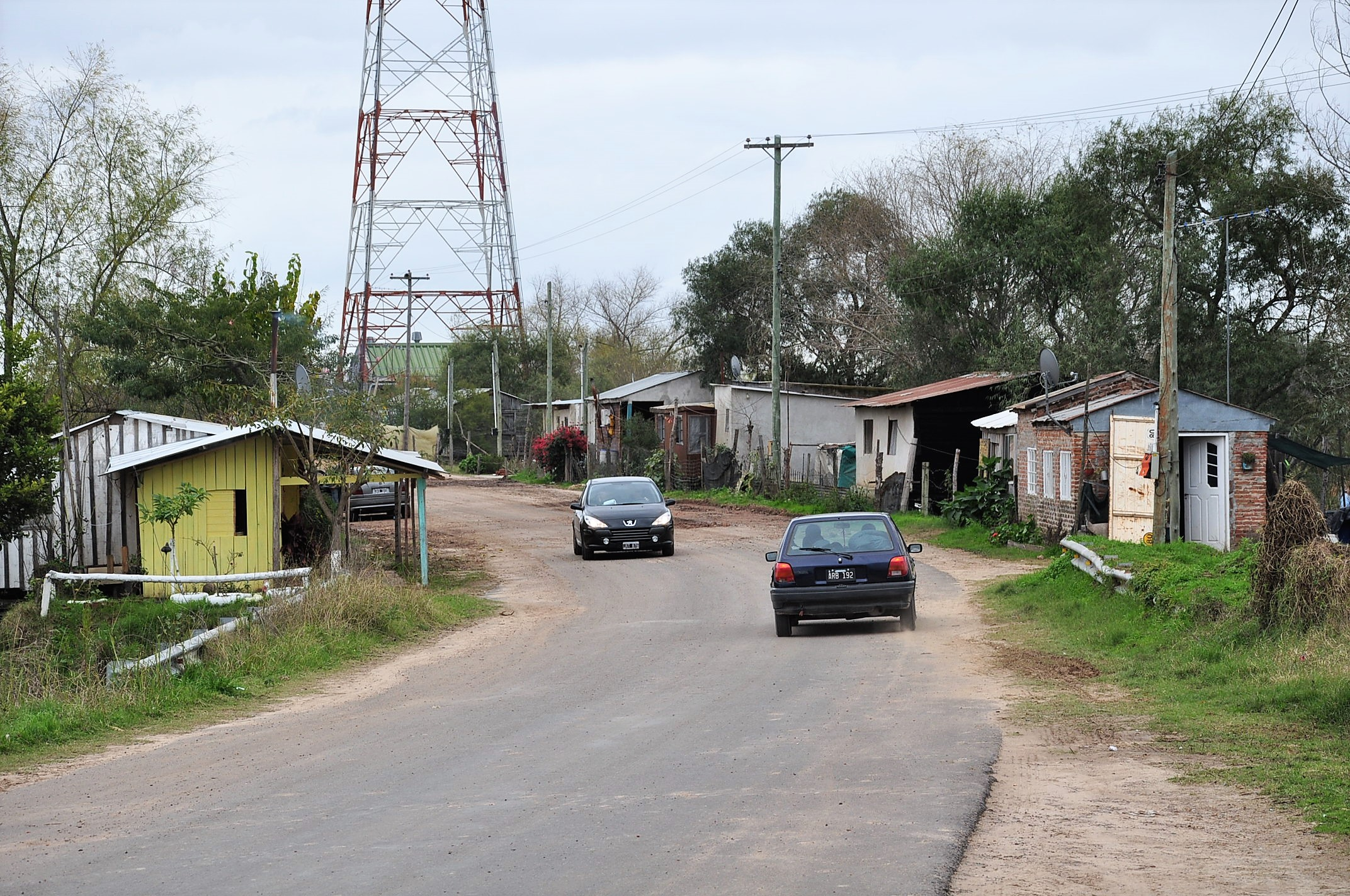 The old National Road No.12 (now called the Caminera a Ibicuy) passing through the hamlet of Brazo Largo (municipality of Villa Paranacito, Islas del Ibicuy department, Entre Ríos province, Argentina)